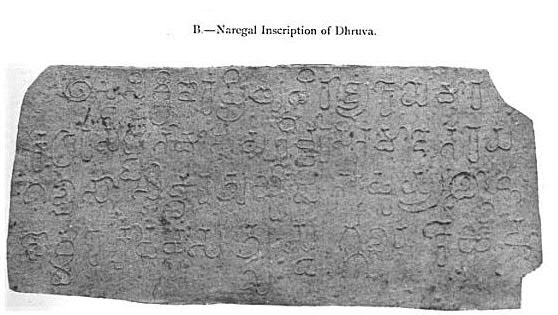 Naregal is a village in the modern Haveri district (old Dharwar district) of modern Karnataka state, India. The inscription is in the old Kannada script and language. Ref source: Epigraphia Indica and Record of the Archæological Survey of India, Volume 6, pp.162-163